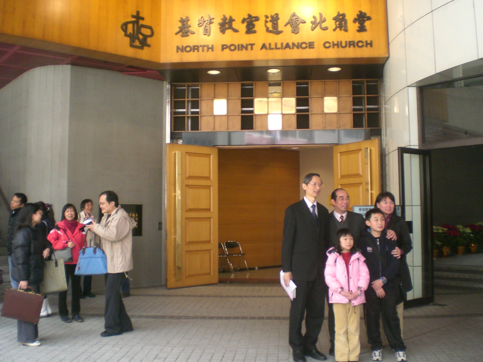 北角 炮台山 英皇道 康澤花園 宣道會北角堂